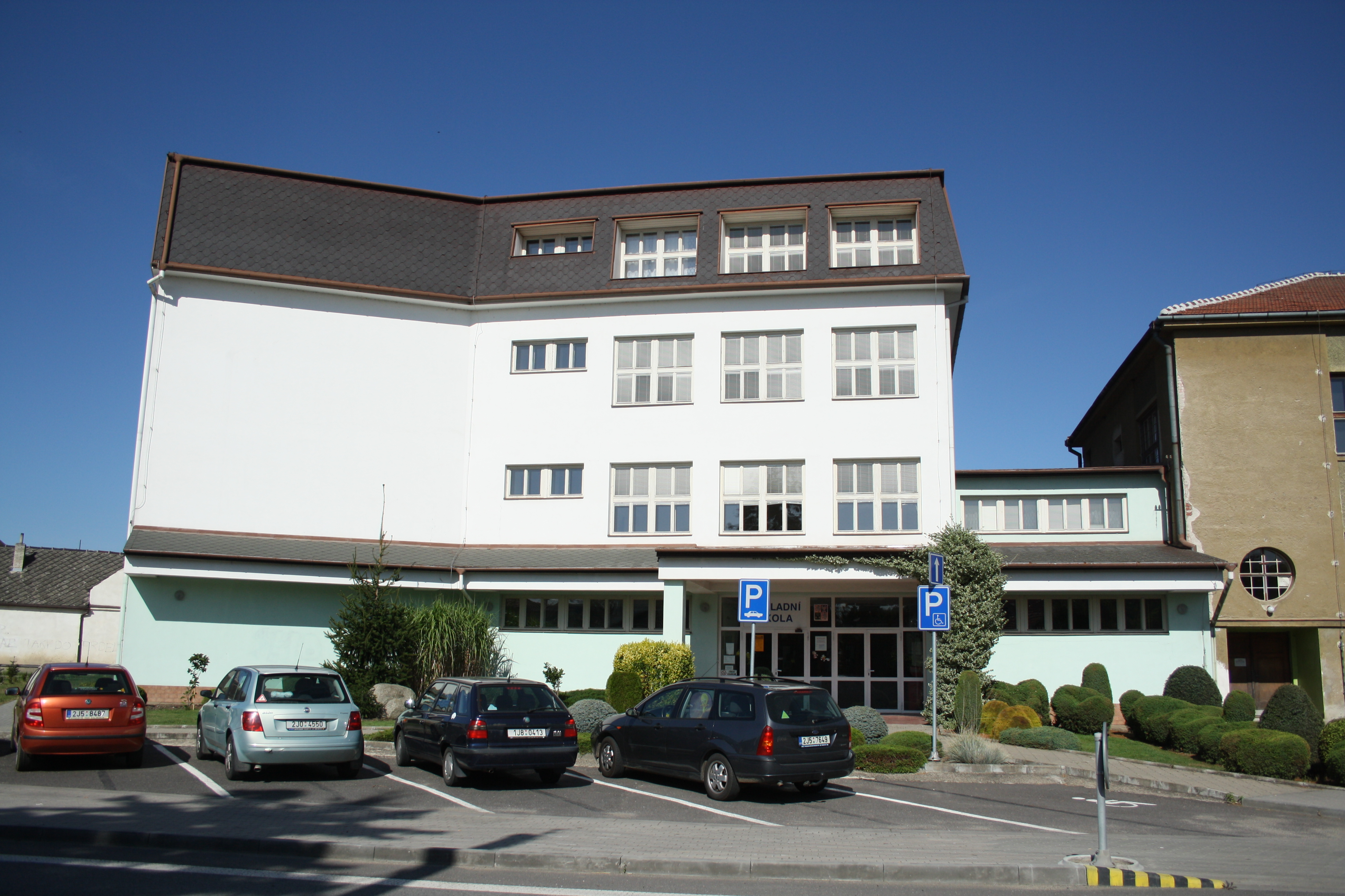 New school building in Vladislav, Czech Republic.